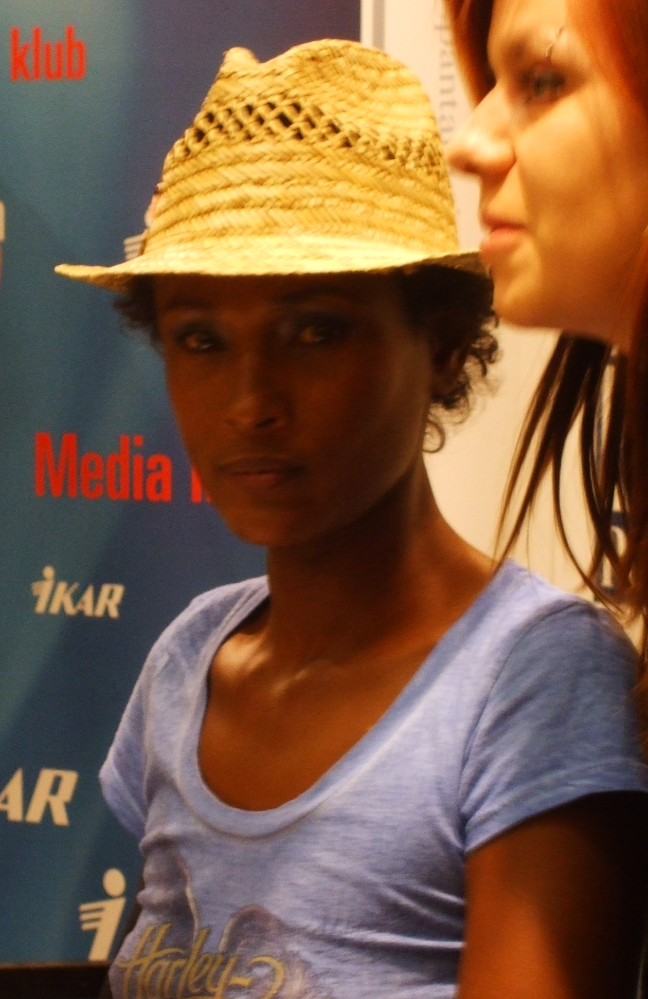 Waris Dirie in Bratislava (Poštová street), 2010.